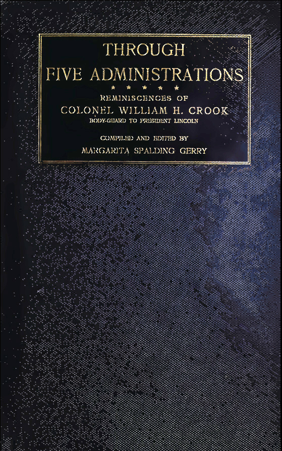 Cover for the 1910 autobiography of William H. Crook's autobiography, Through Five Administrations